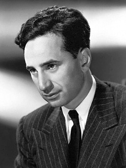 Elia Kazan (1909 – 2003) was an American director, producer, writer and actor